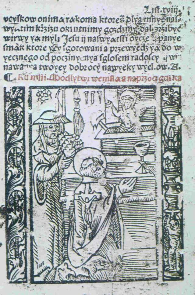 Page from a copy of Hortulus Animae, polonice Hortulus Animae (en: Little Garden of the Soul, Seelengärtlein, Jardin des Âmes, Raj duszny) was the Latin title of a prayer book also available in German. It was very popular in the early sixteenth century, printed in many versions, also abroad in Lyons and Kraków Source: [1]